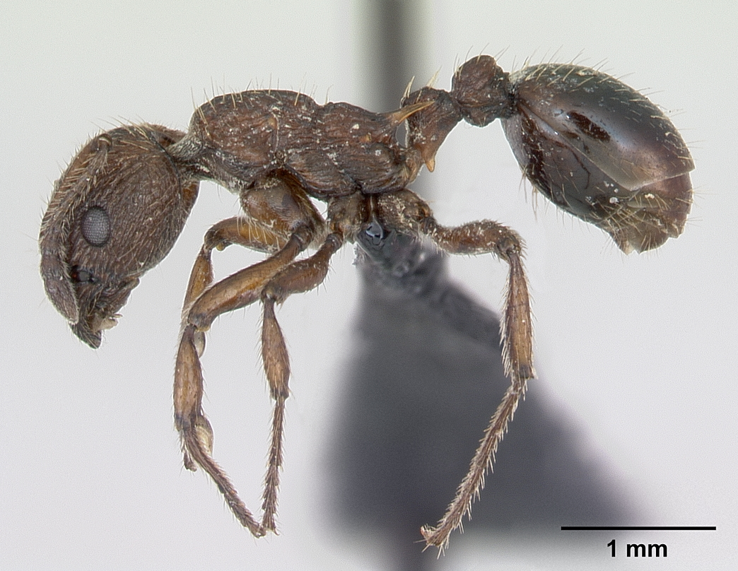 Profile view of ant Myrmica scabrinodis specimen casent0172759.